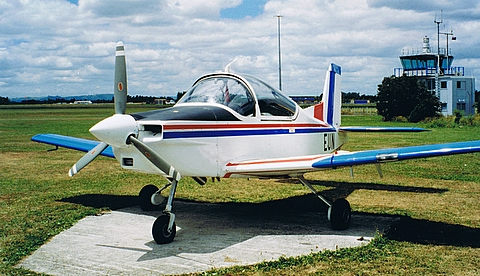 Photograph of Prototype PAC CT4E Airtrainer Aircraft. Photographer : Evan Yates, Hamilton, New Zealand